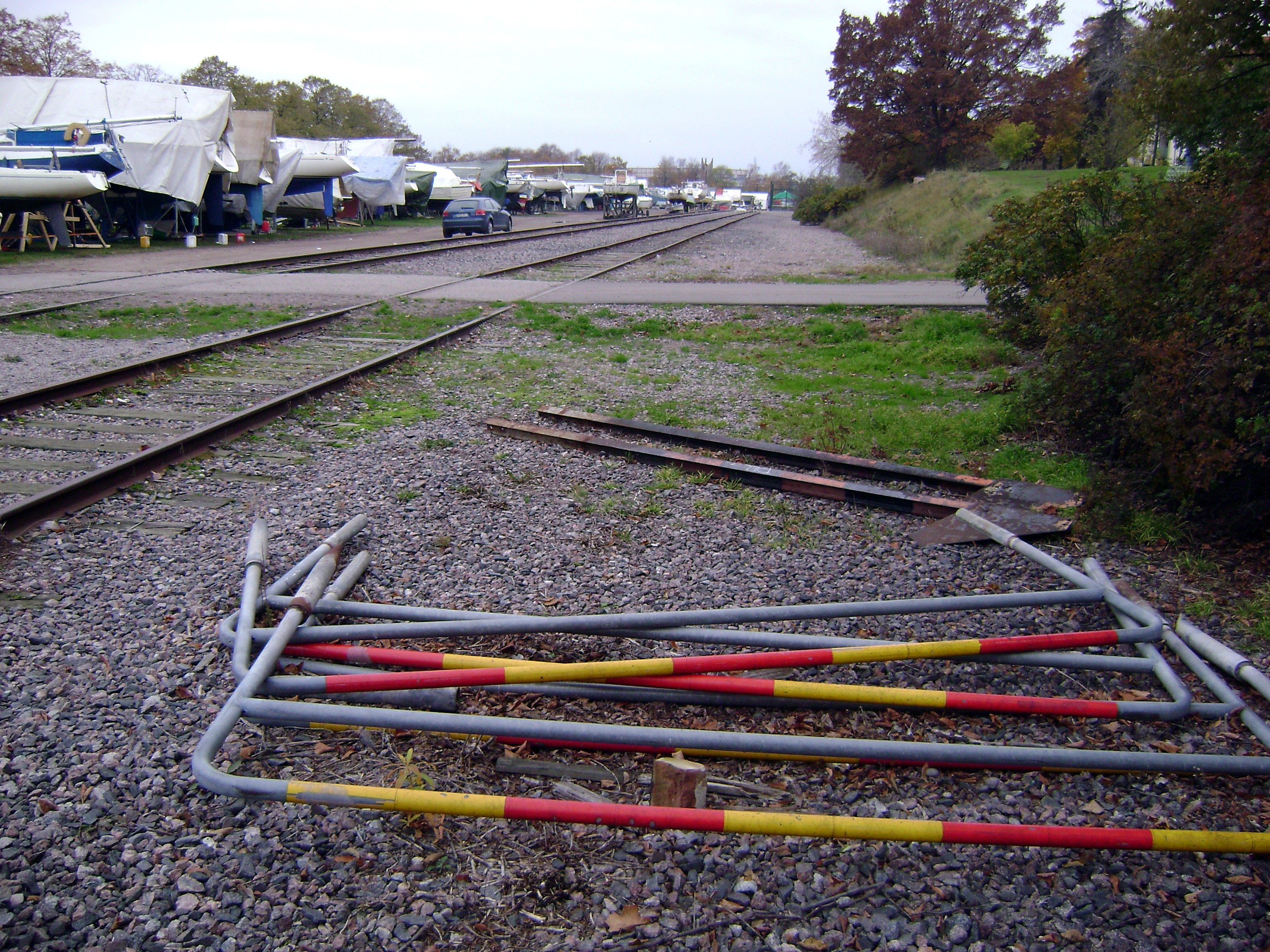 The old Merisatama railyard in Eira, Helsinki.